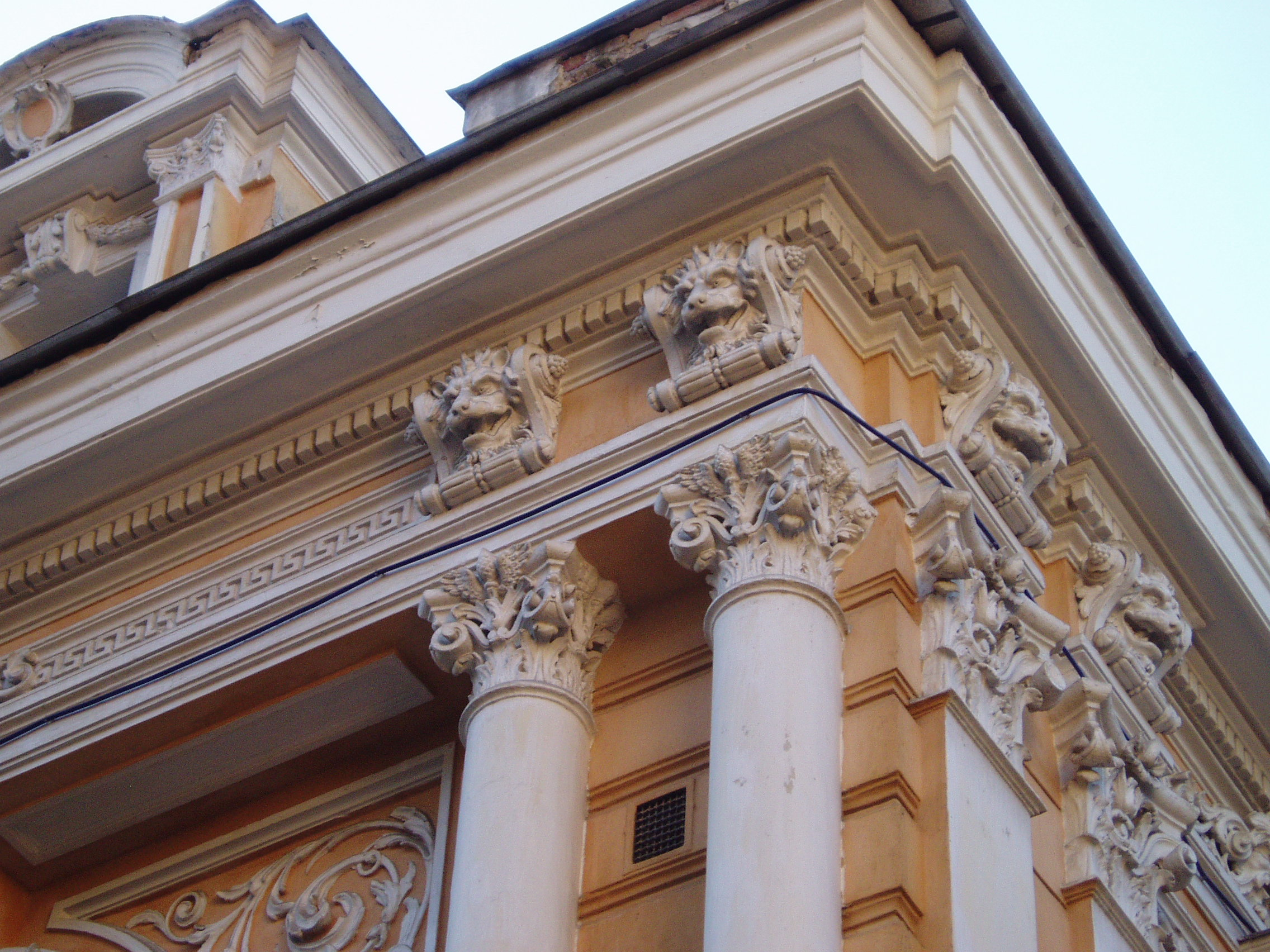 A photo of a front of historic Liberman manor in downtown Kyiv